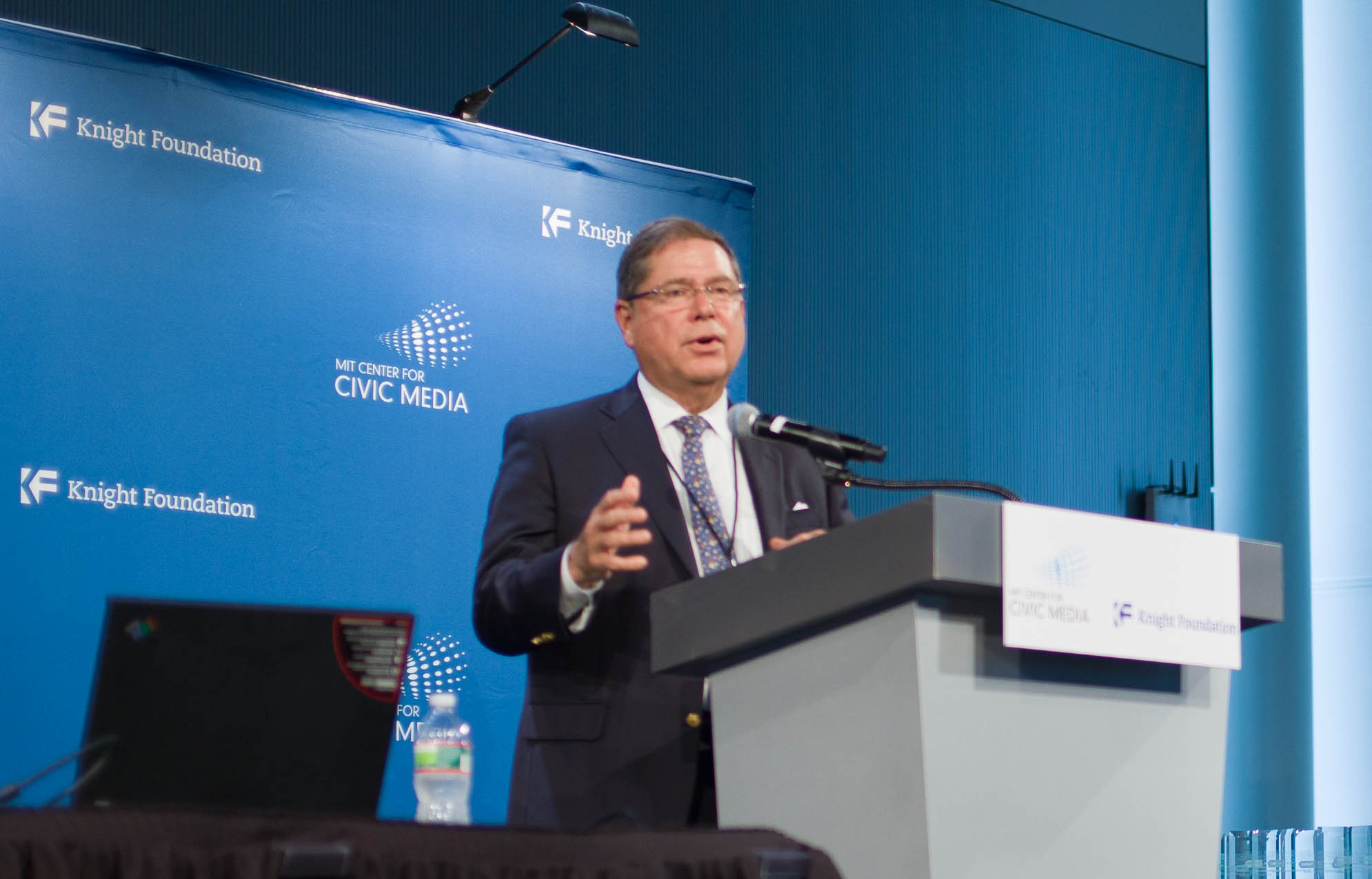 Alberto Ibarguen